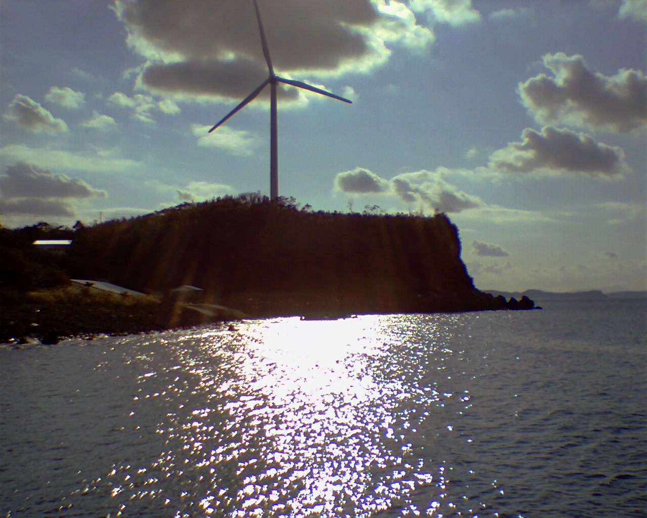 This photograph is Wind turbine located in Genkai town,Higashimatsuura District,Saga,Japan.